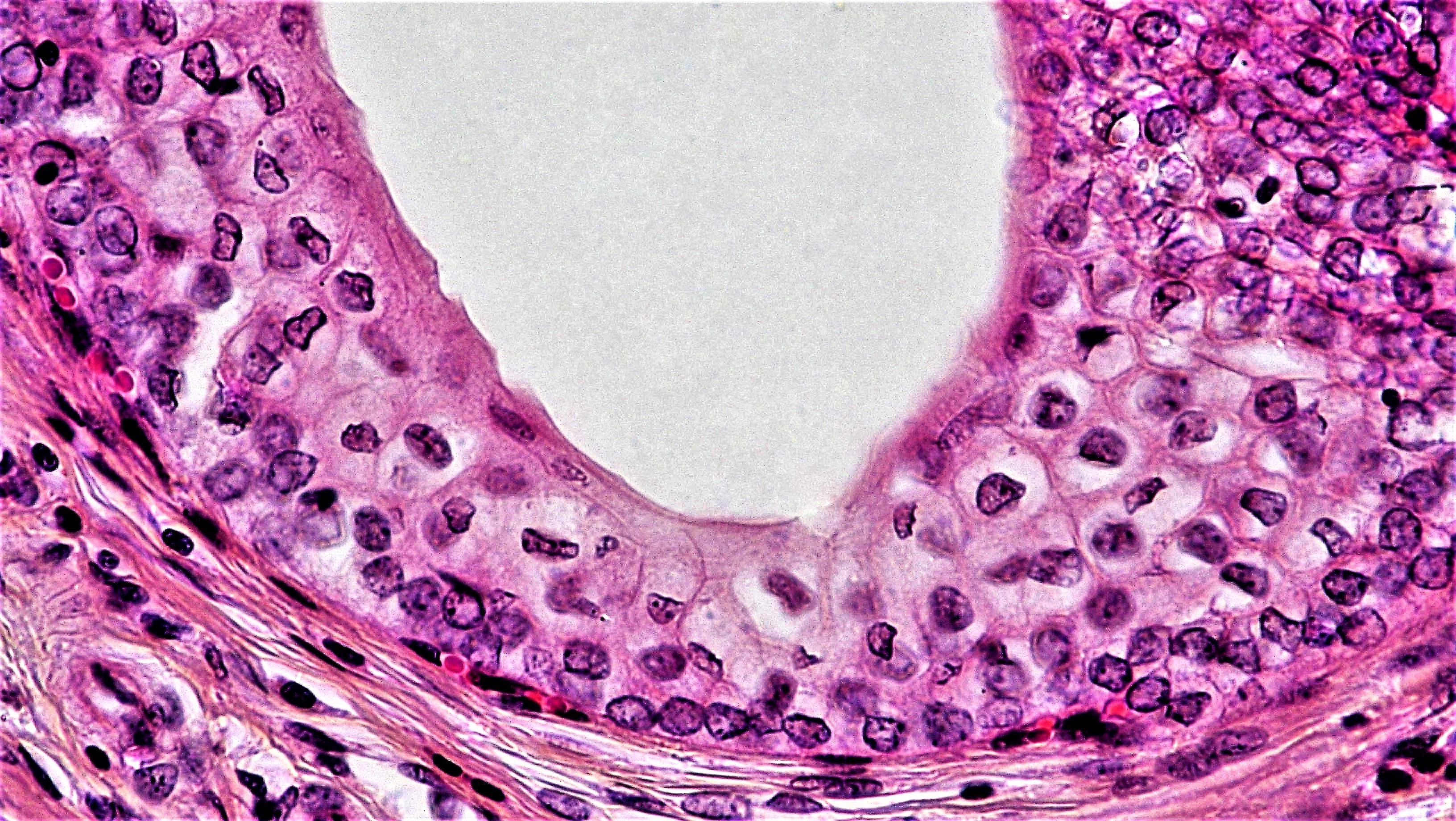 cross section: urinary bladder magnification: 400x